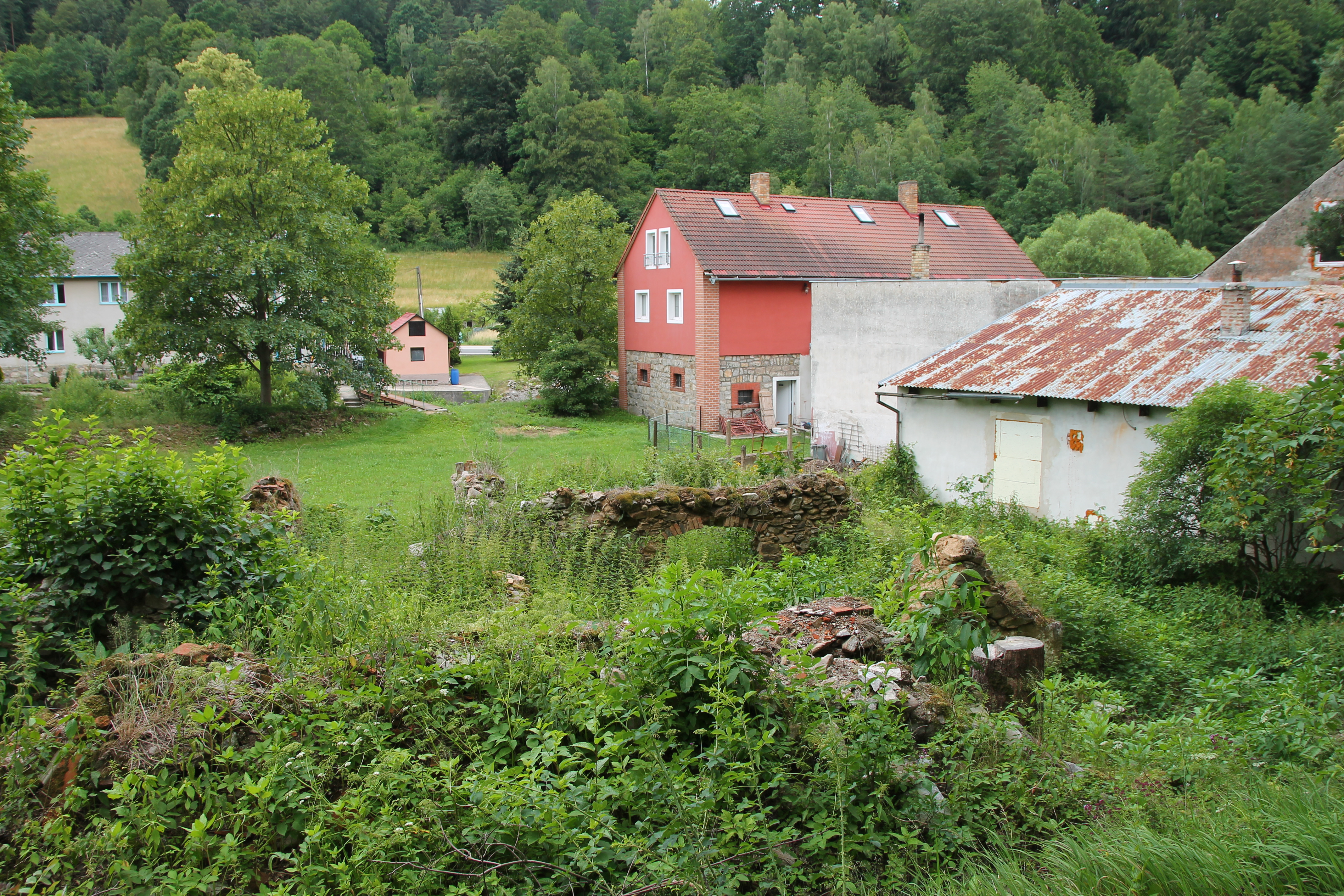 Sudslavice, Vimperk